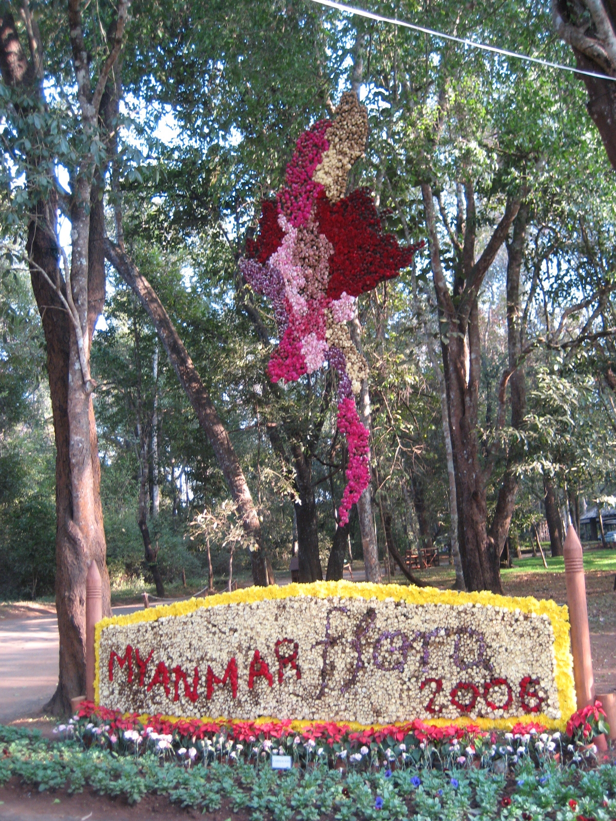 Flower festival 2006 at the National Kandawgyi Botanical Gardens in Pyin U Lwin, Myanmar